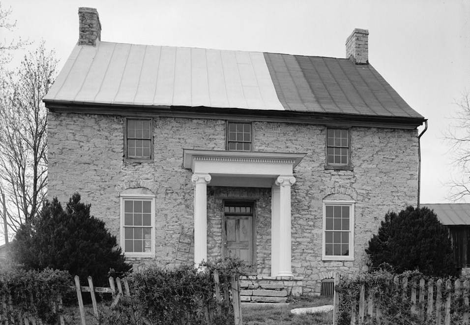 Fort Bowman, Frontage Road, Strasburg, (Shenandoah County, Virginia) cropped, HABS VA,86-STRASB.V,1-5 This file comes from the Historic American Buildings Survey (HABS), Historic American Engineering Record (HAER) or Historic American Landscapes Survey (HALS). These are programs of the National Park Service established for the purpose of documenting historic places. Records consist of measured drawings, archival photographs, and written reports. When reusing please credit: Library of Congress, Prints & Photographs Division, VA-909 This tag does not indicate the copyright status of the attached work. A normal copyright tag is still required. See Commons:Licensing. This work is in the public domain in the United States because it is a work prepared by an officer or employee of the United States Government as part of that person’s official duties under the terms of Title 17, Chapter 1, Section 105 of the US Code. Note: This only applies to original works of the Federal Government and not to the work of any individual U.S. state, territory, commonwealth, county, municipality, or any other subdivision. This template also does not apply to postage stamp designs published by the United States Postal Service since 1978. (See § 313.6(C)(1) of Compendium of U.S. Copyright Office Practices). It also does not apply to certain US coins; see The US Mint Terms of Use. This file has been identified as being free of known restrictions under copyright law, including all related and neighboring rights.